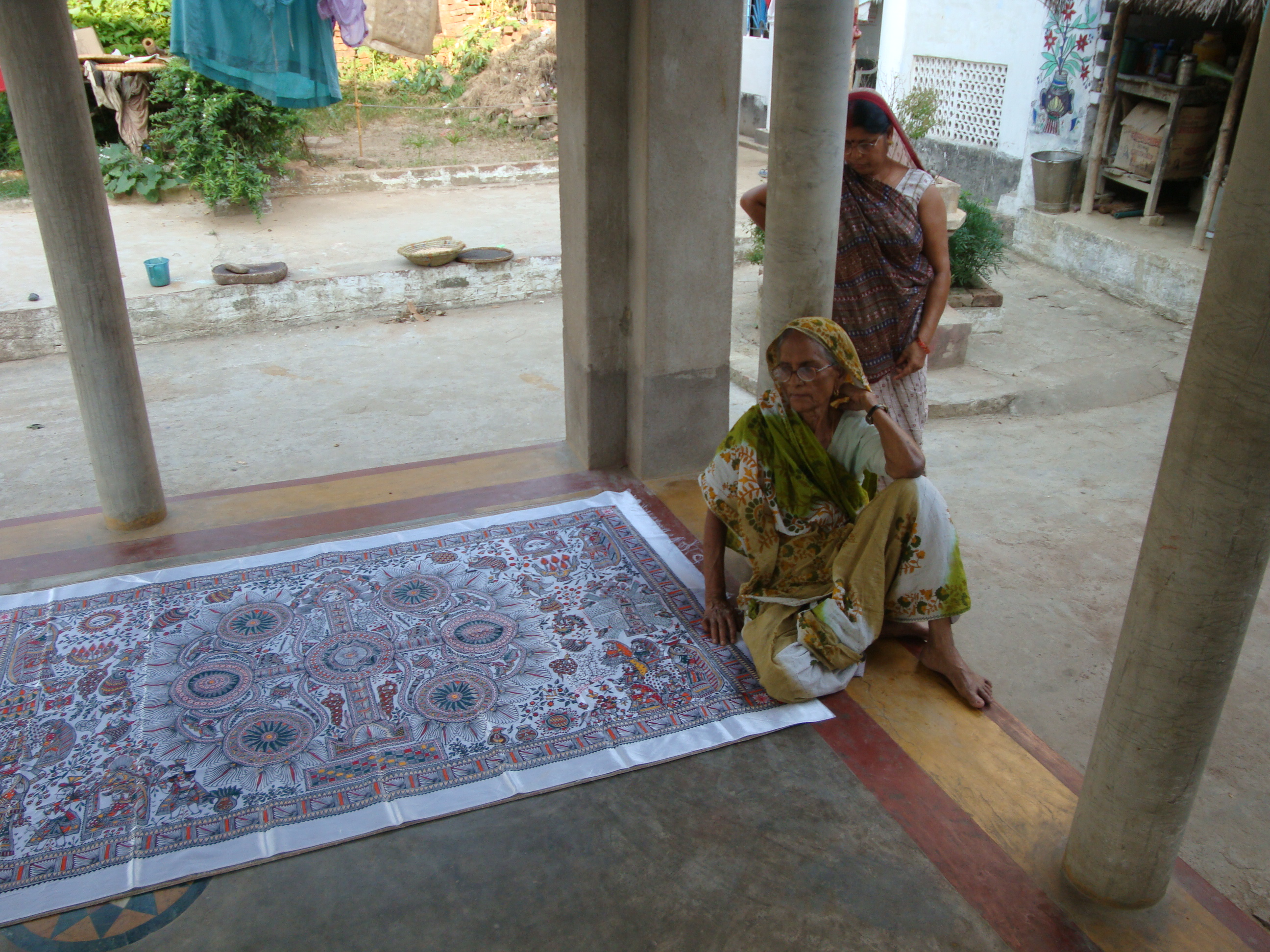 mahasundari devi an artist from madhubani famous for mithila painting